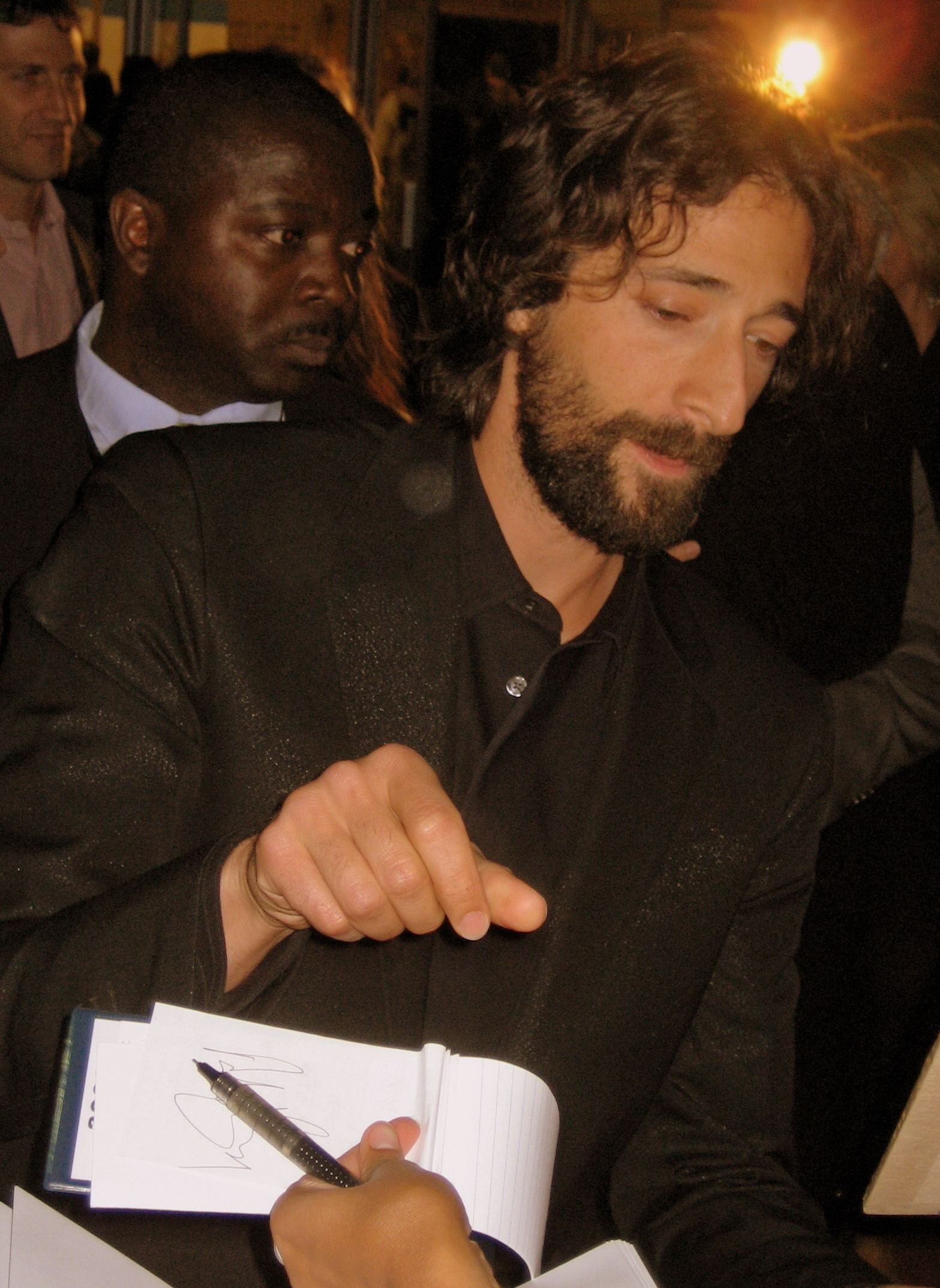 Adrien Brody at the Toronto International Film Festival 2008.